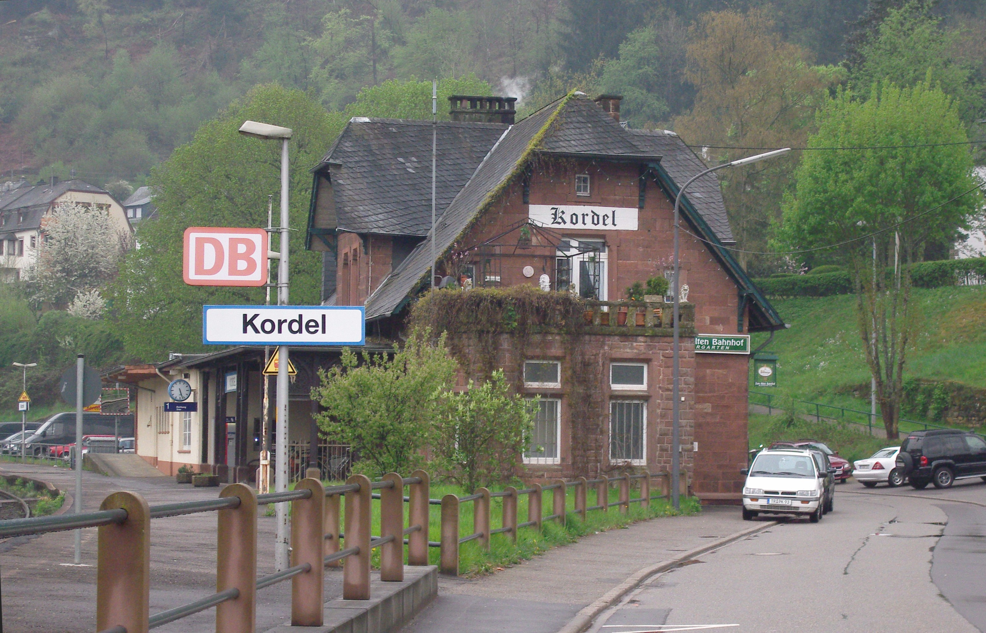 Station of Kordel